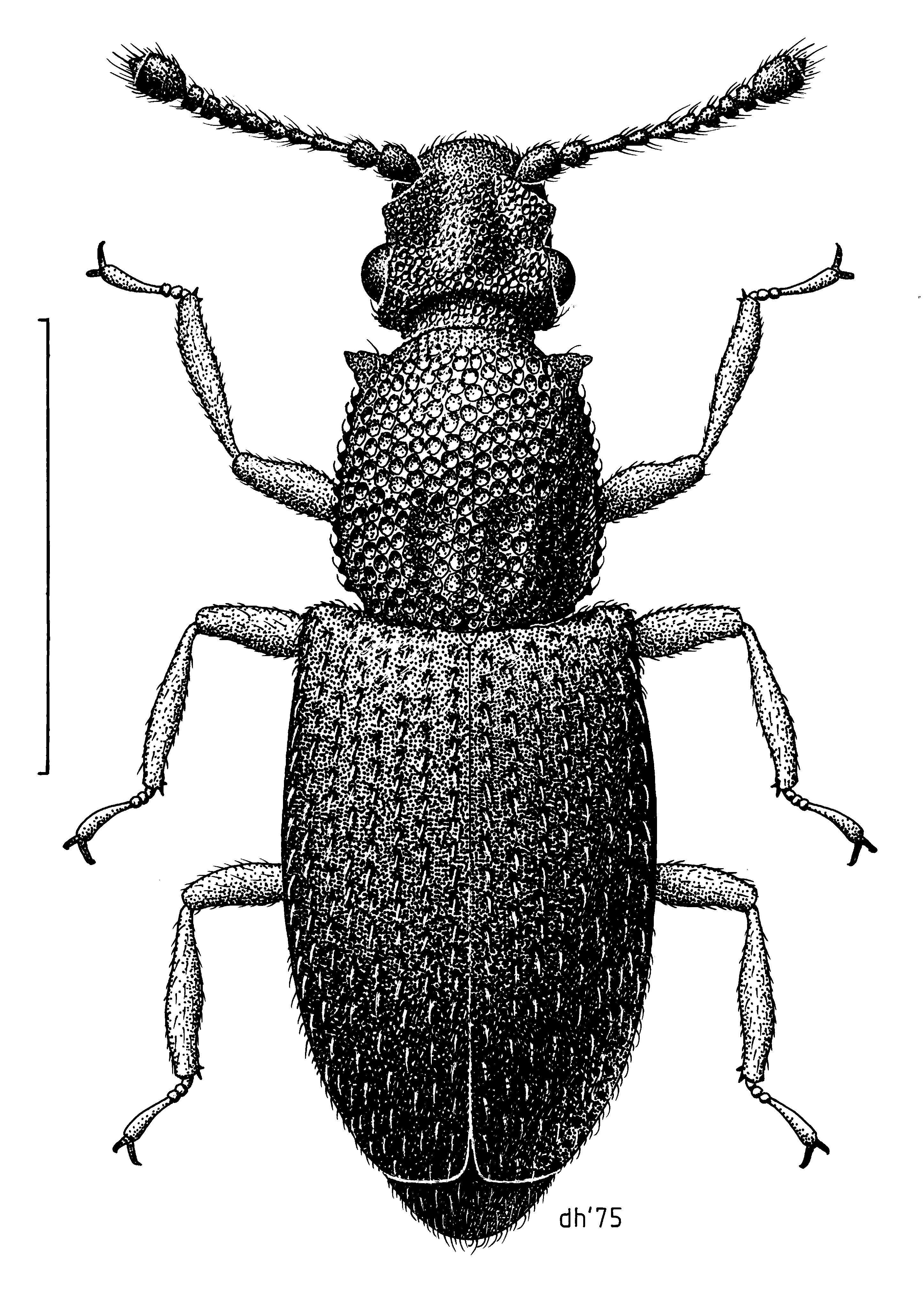 (Coleoptera: Monotomidae) Monotoma spinicollis illustrated by Des Helmore.